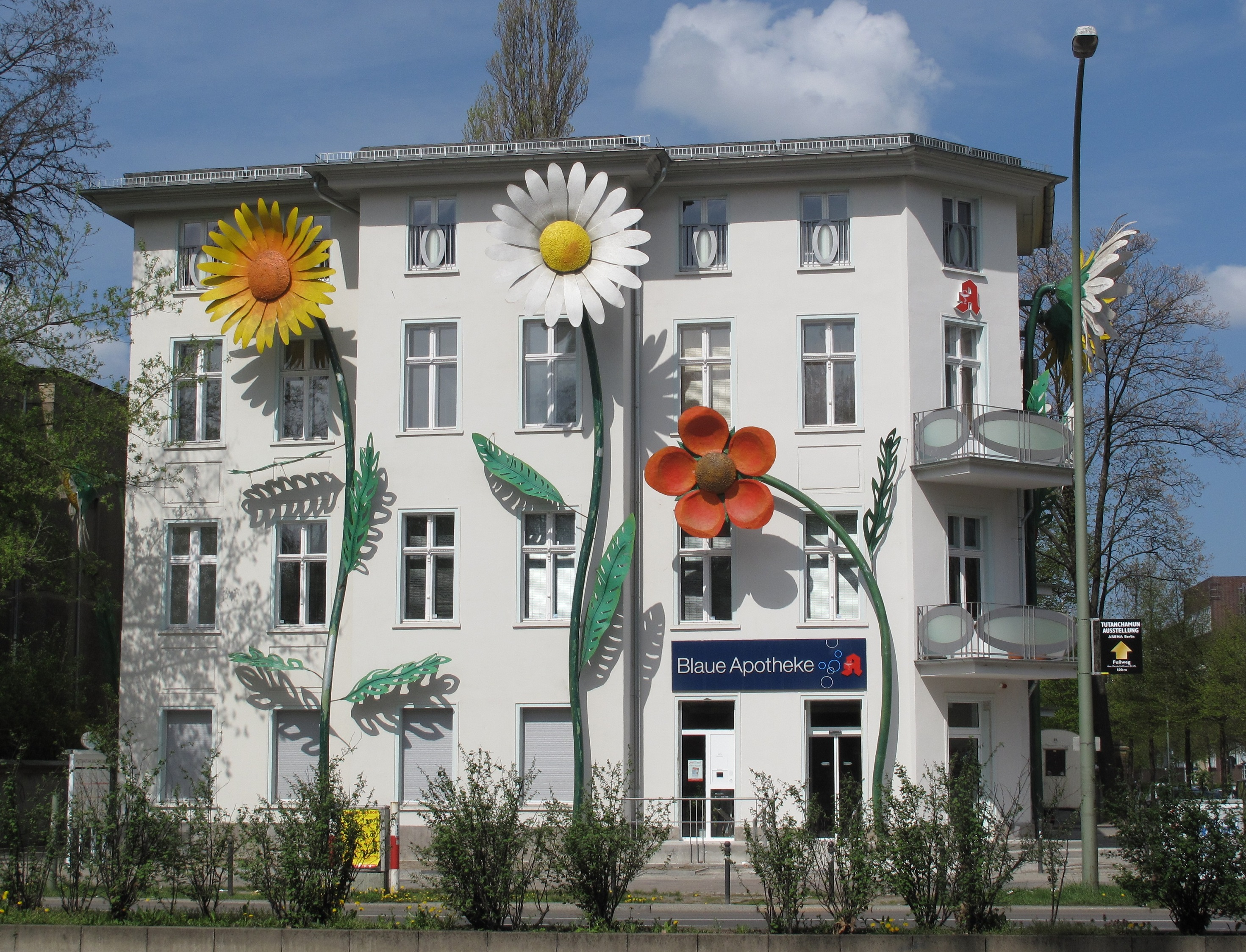 The Ärztehaus Treptow (german for: doctor’s house, health center Treptow) is a listed villa in Berlin-Alt-Treptow, Germany, built in the 1880ths/1890ths. In 2012 there created the pop Art-artist Sergej Alexander Dott the art object Riesenblumen (german for: giant flowers) with ten up to 12 meters high sculptures of medicinal plants.